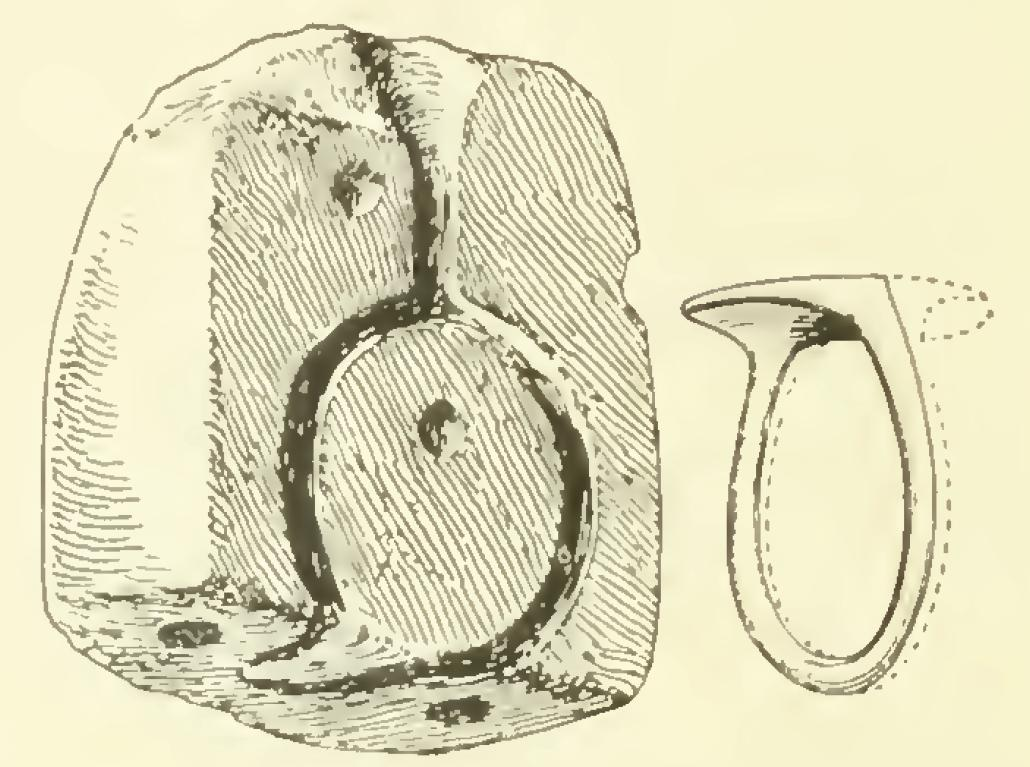 part of stone mount.